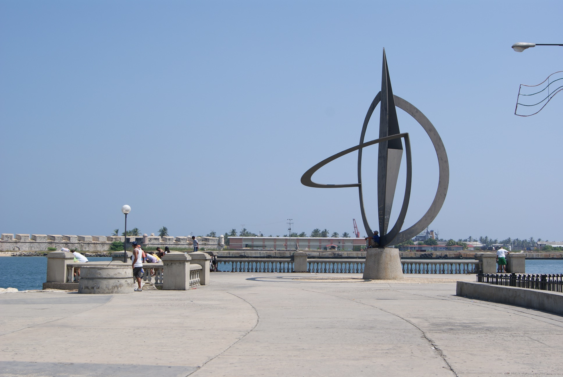 Puerto Cabello, Venezuela